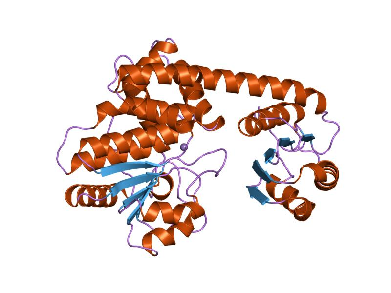 Cartoon representation of the molecular structure of protein registered with 1ir6 code.